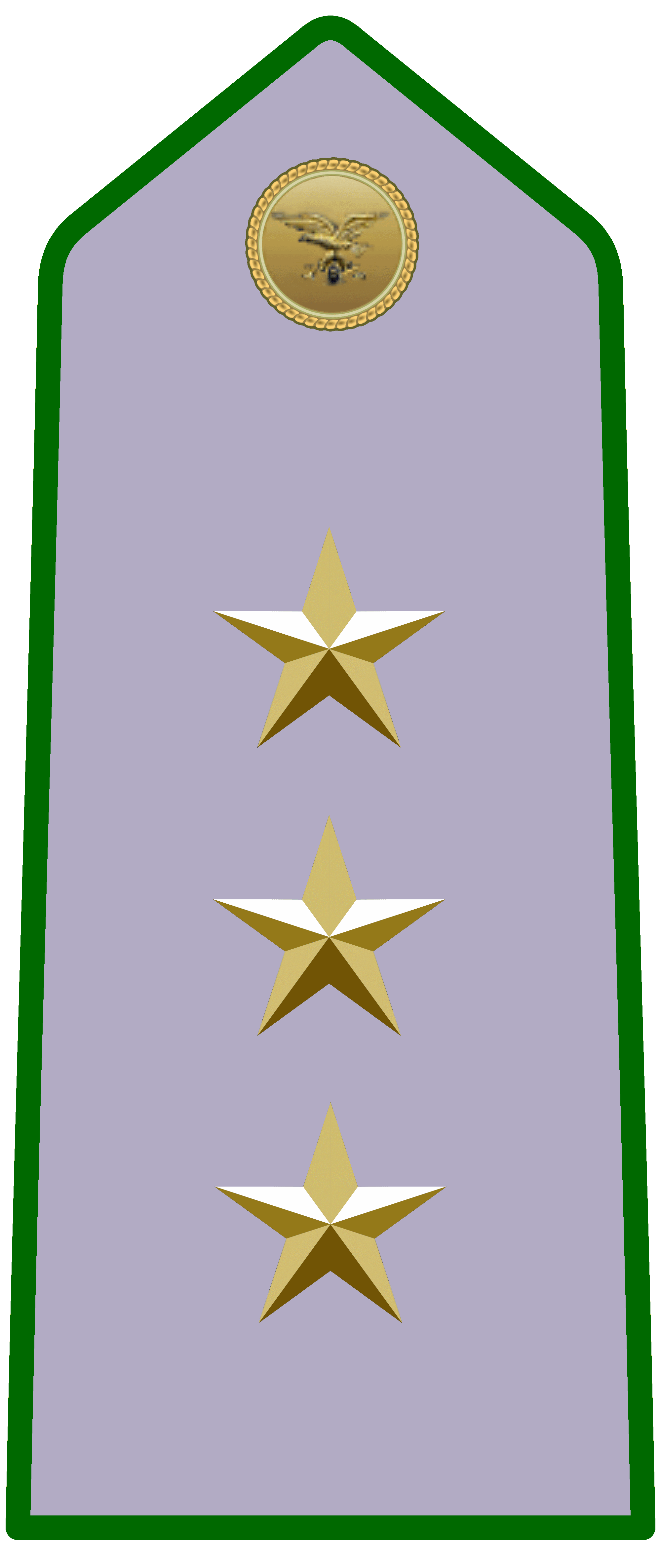 Rank insigna of "Commissario" of the Italian "Corpo Forestale dello Stato".